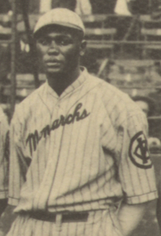 George Sweatt at the 1924 Colored World Series. LOC states here that there are no restrictions on use of this image, therefore it is PD. This file has been extracted from another file: 1924 Negro League World Series.jpg